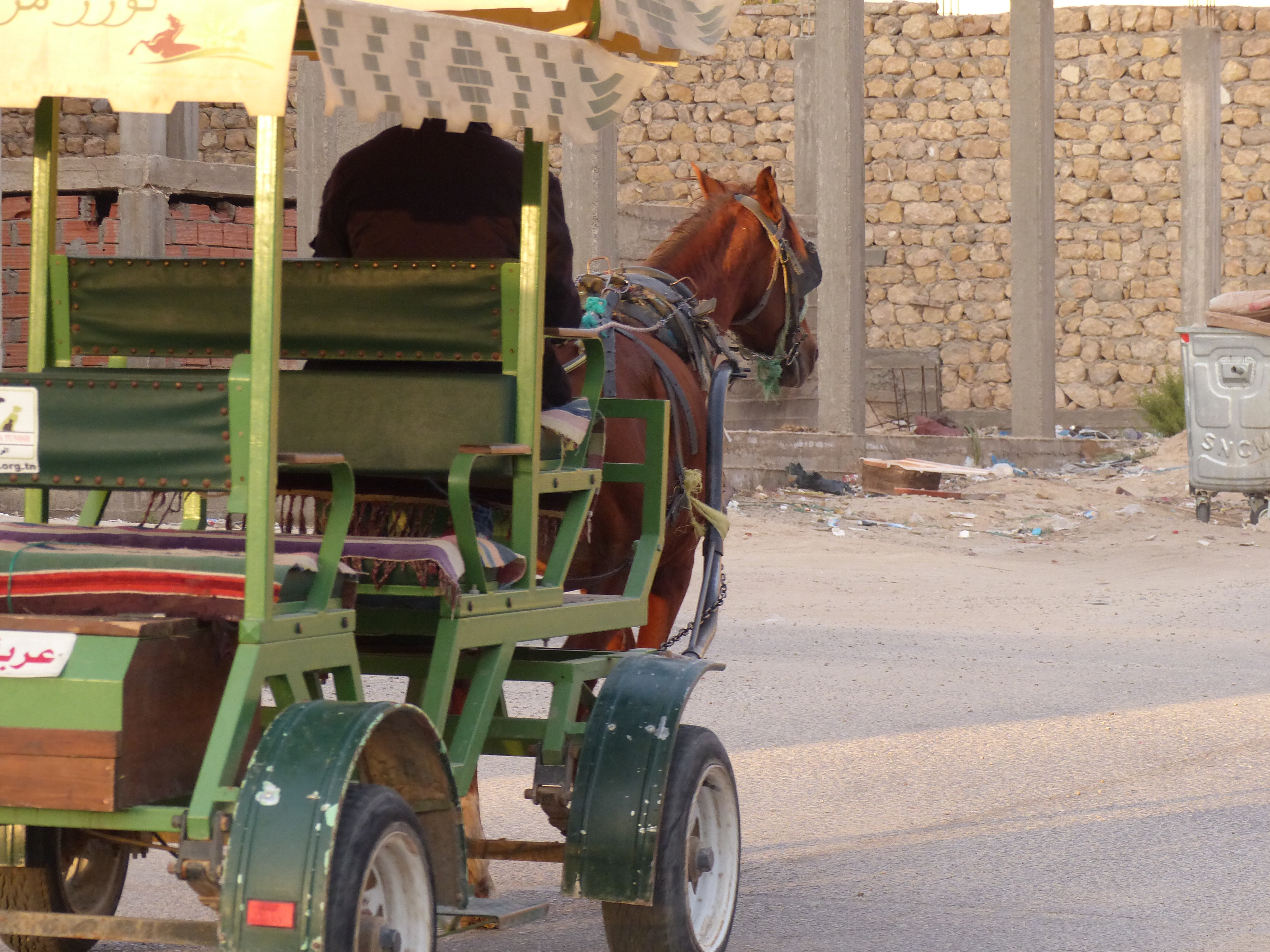 Attelage touristique dans la zone, à Tozeur, Tunisie.